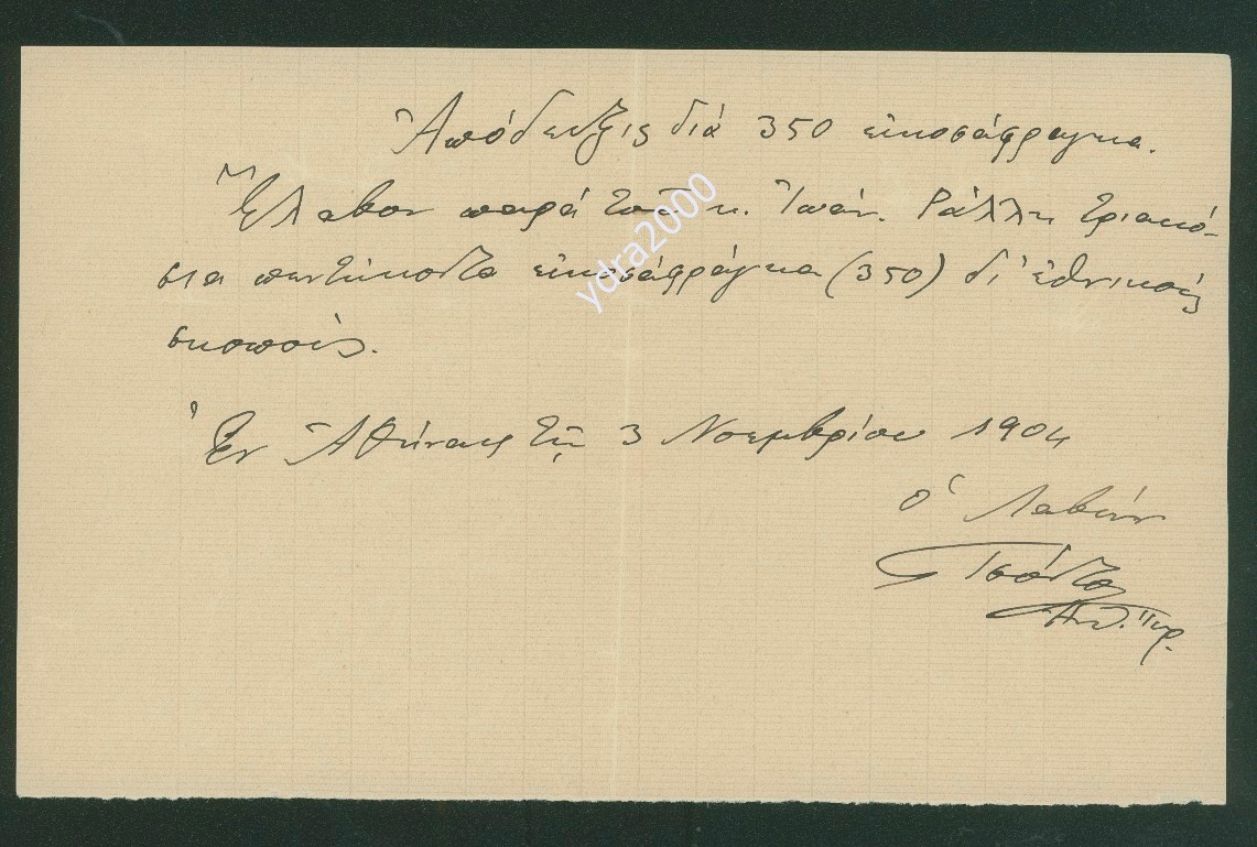 Hand written receipt of Georgios Tsontos for money that he received from Ioannis Rallis.